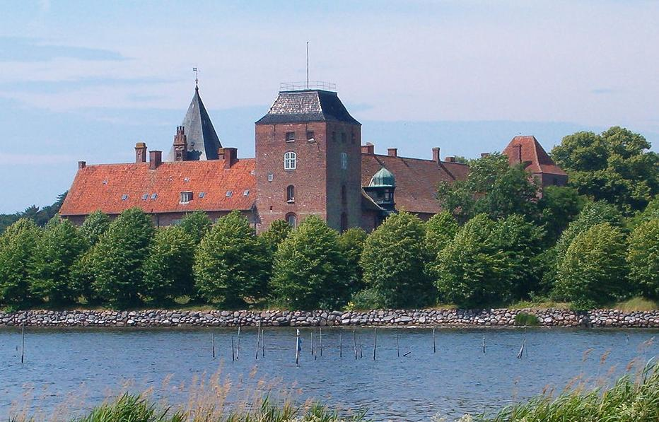 Cropped version of original file.